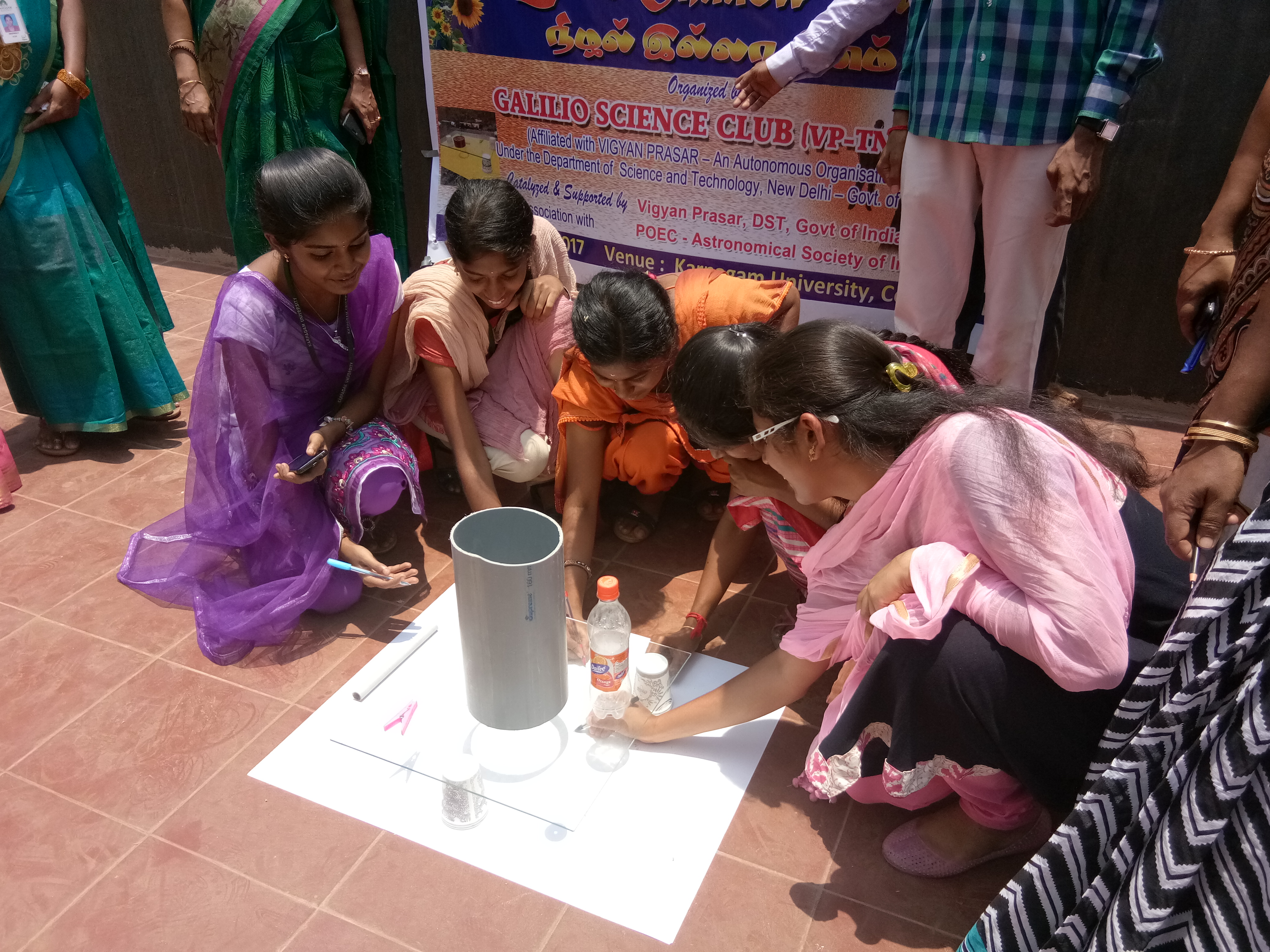 an experiment about zero shadow day in karpagam university